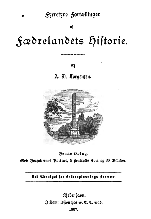 Title page from the book Fyrretyve fortællinger af Fædrelandets Historie ("Forty Tales from the story of the Fatherland"), written by A.D. Jørgensen. This 5th edition was published 10 years after his death.